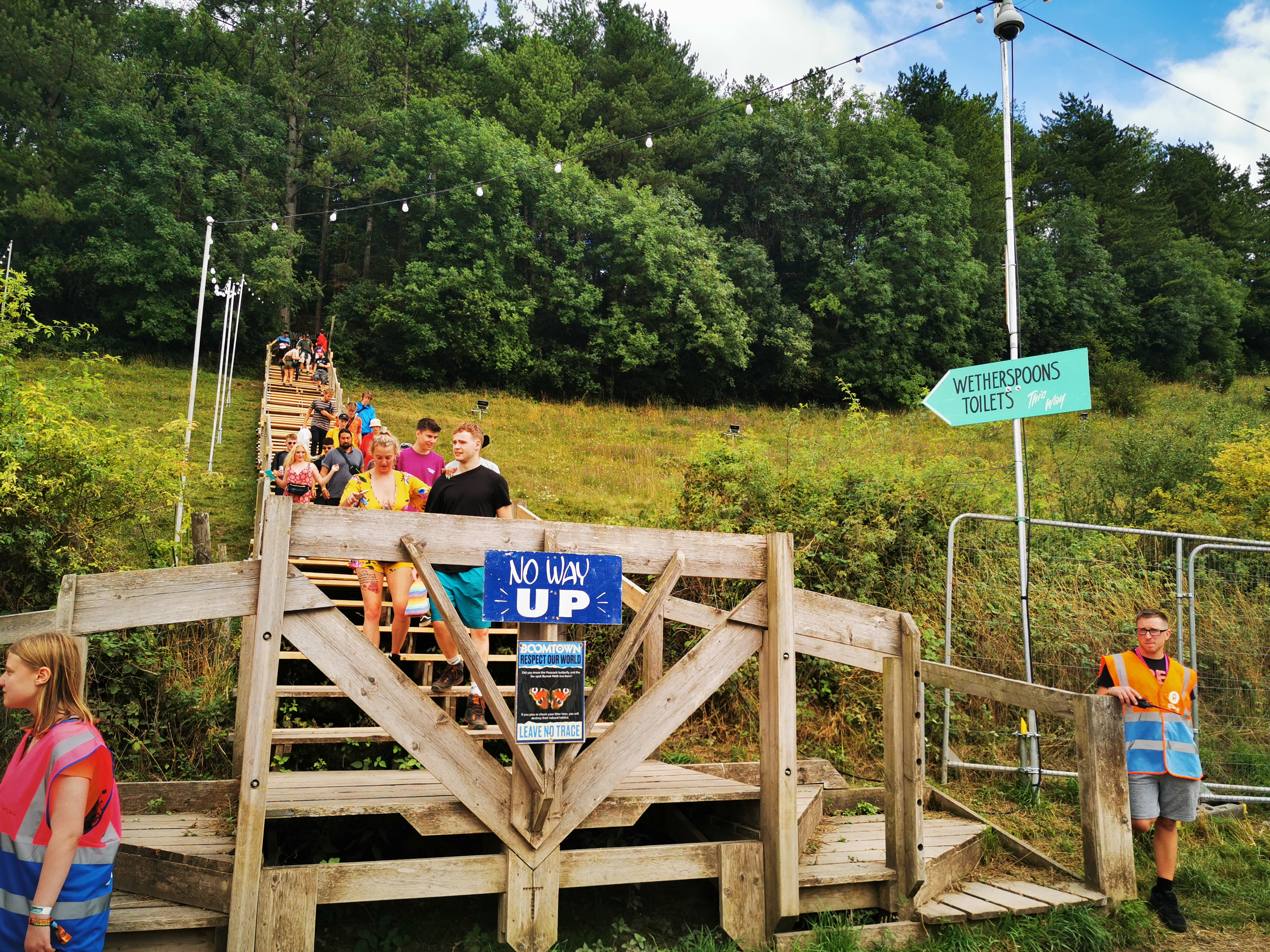 The bottom of the steps at Boomtown Fair Chapter 11, held in August 2019. With a "Wetherspoons toilets" sign.